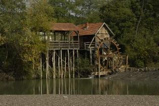 A water mill in the Ukrina river in Bosnia Herzegovina